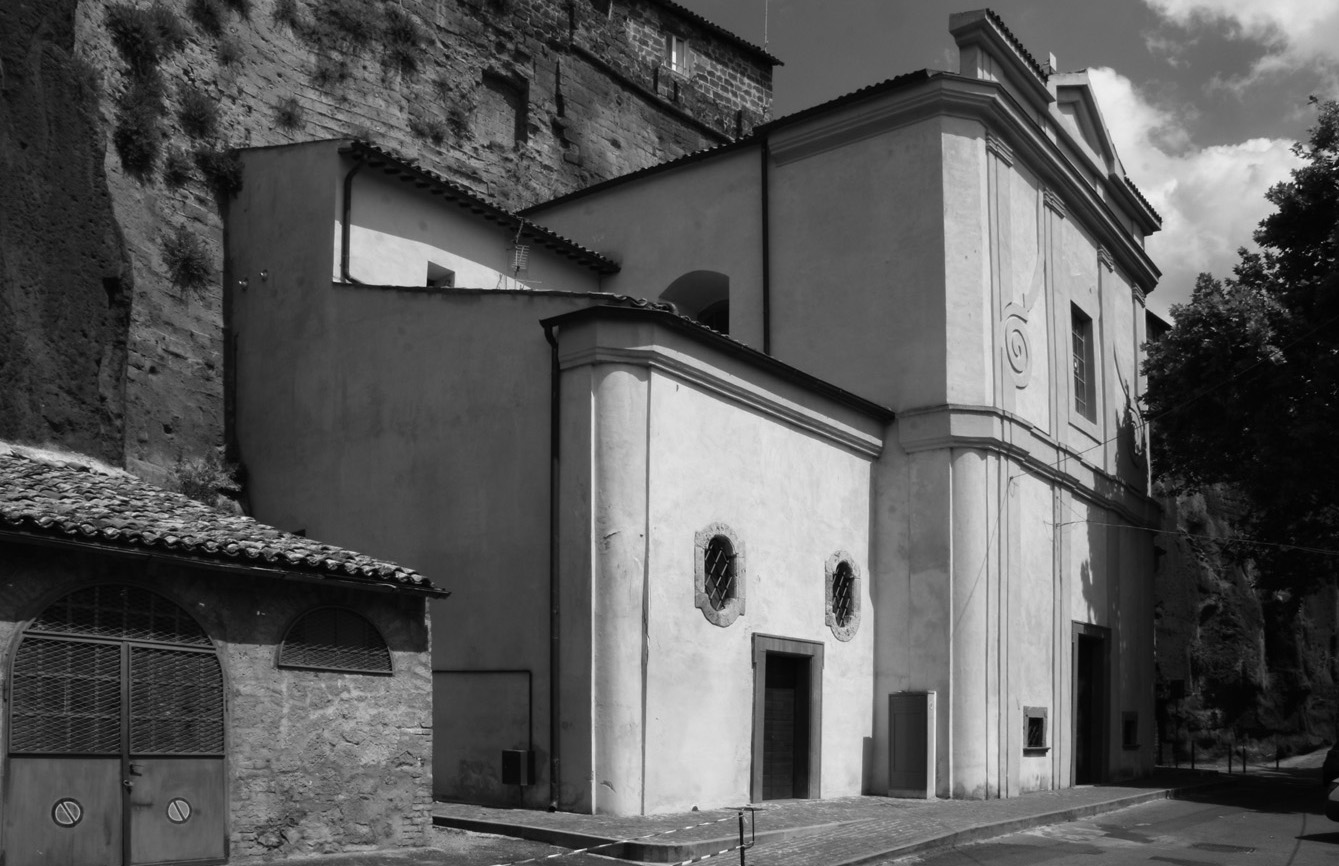 The church of Madonna del velo in Orvieto - Italy, built by bishop Giuseppe di Marsciano (1696-1754)